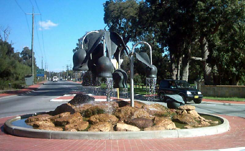 Roundabout at the entrance to Hartfield Park Sporting complex Forrestfield Photo Taken by gnangarra September 2005